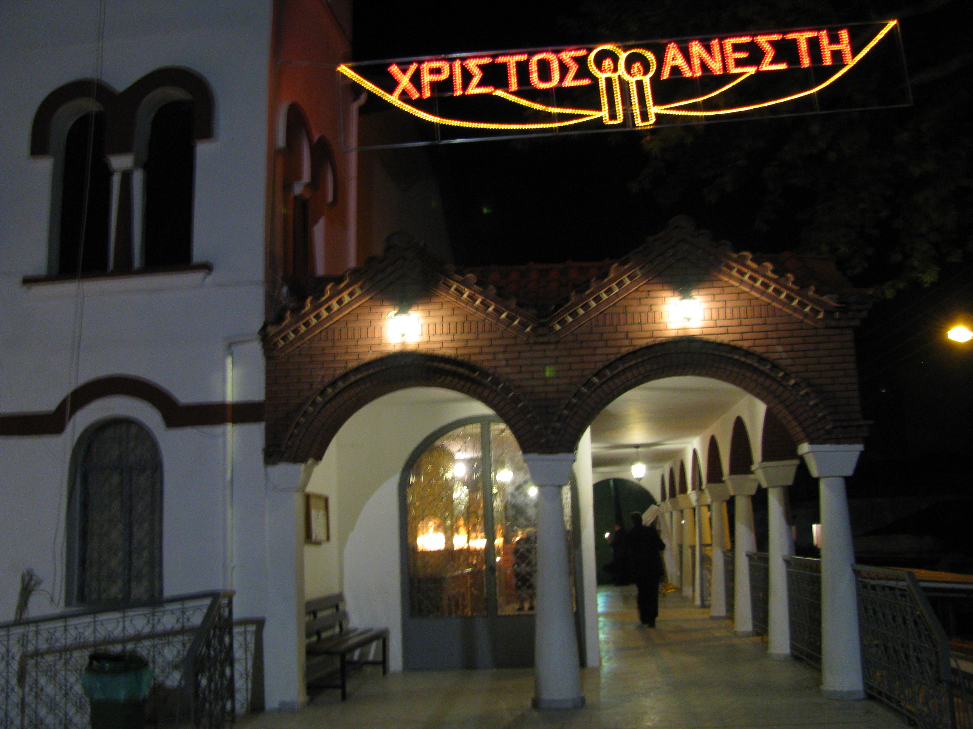 Church in Giannitsa, Greece during Easter